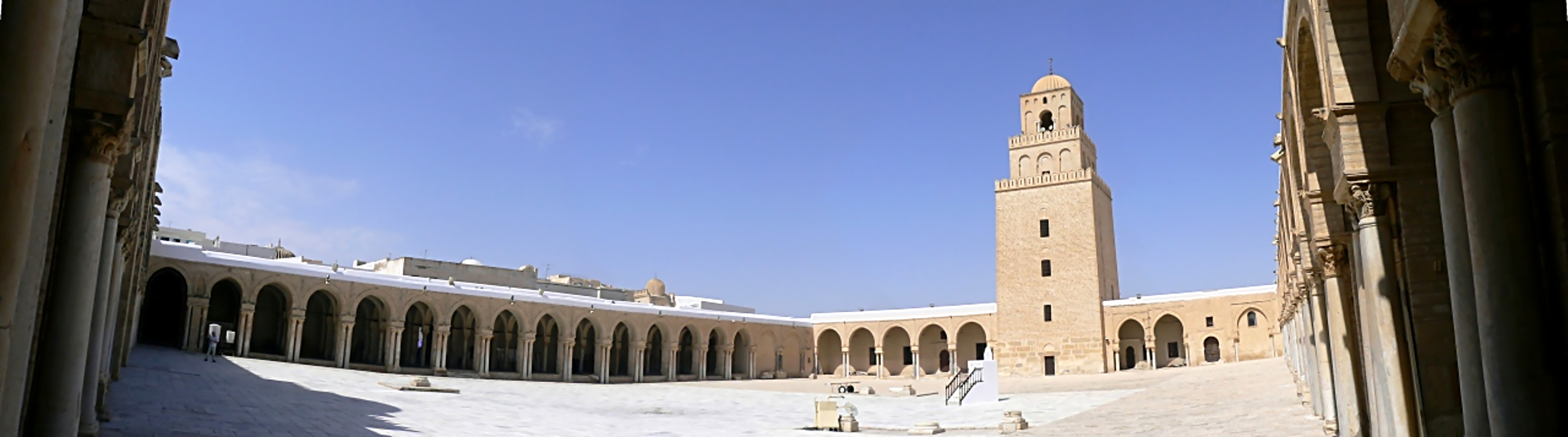 Panoramic view of the courtyard of the Great Mosque of Kairouan, in Tunisia.